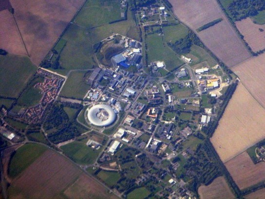 Harwell Science and Innovation Campus, Harwell, Oxon